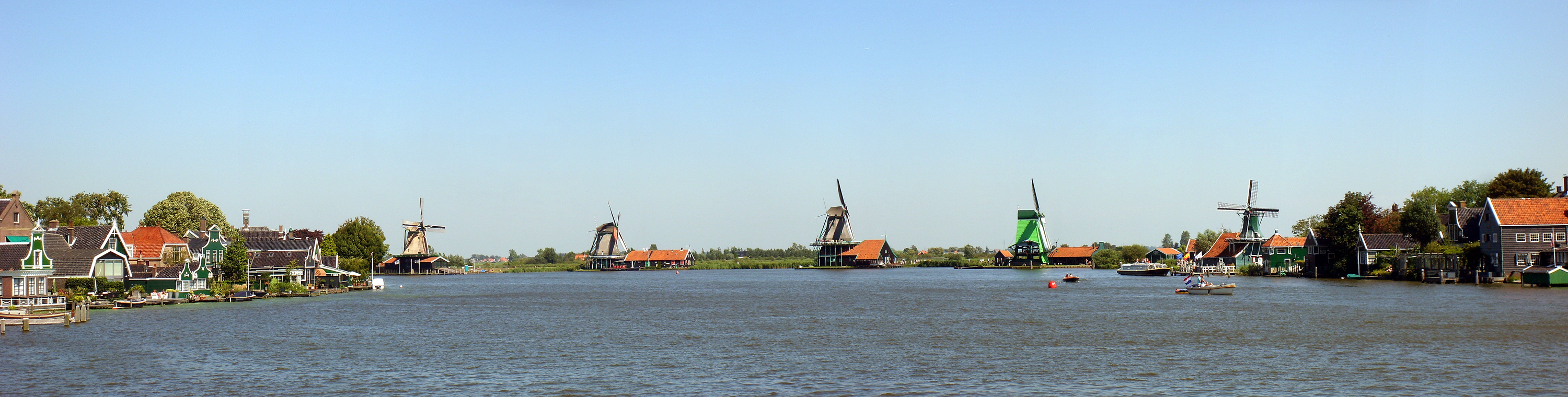 A panoramaphoto of the Zaanse Schans. De mills on the photo are (from left to right): Het Jonge Schaap, De Zoeker, De Kat, De Gekroonde Poelenburg, De Huisman.